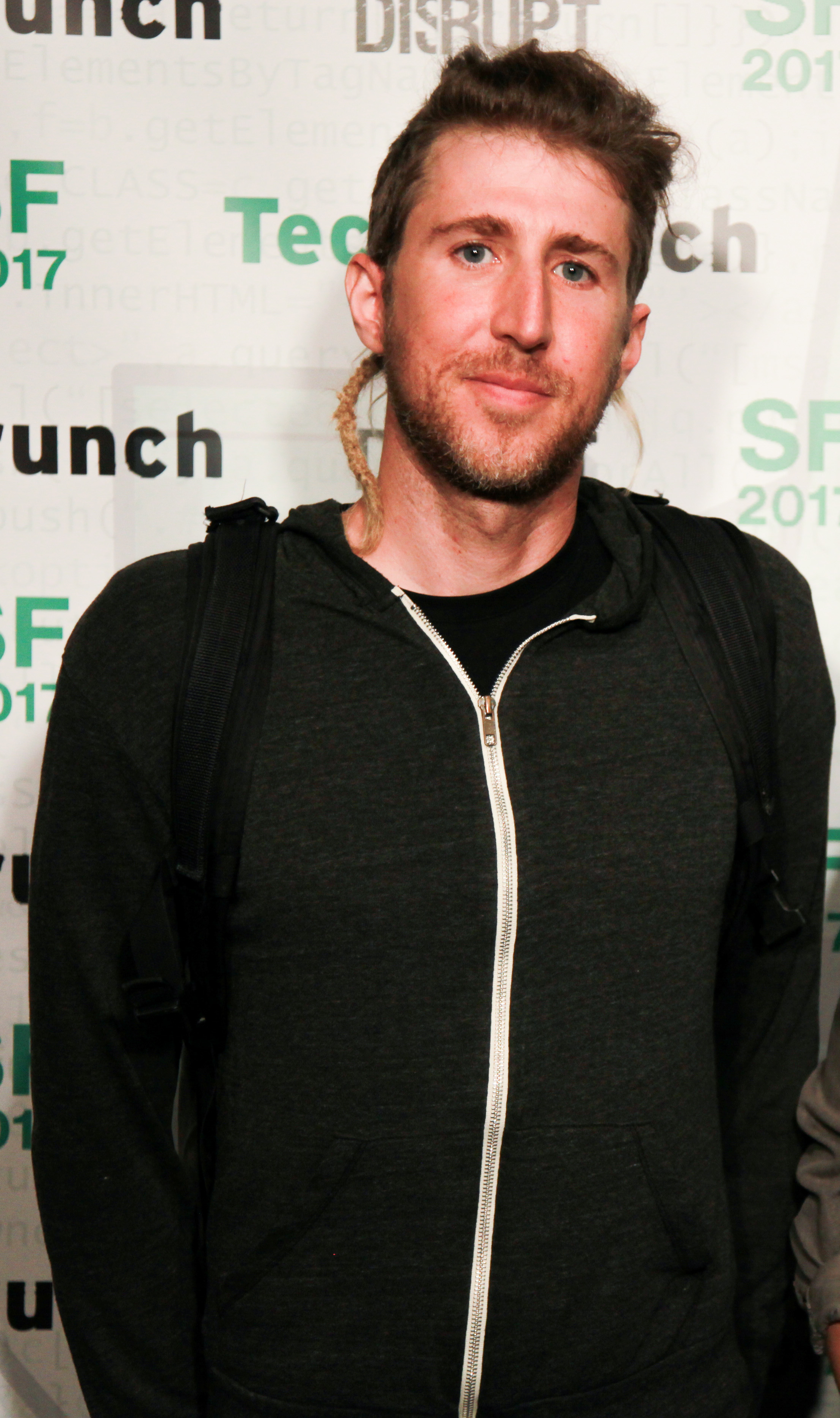 Moxie Marlinspike in 2017